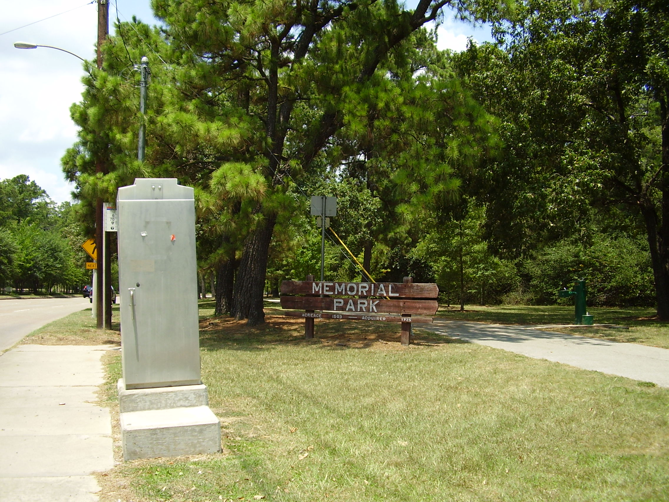 Sign for Memorial Park